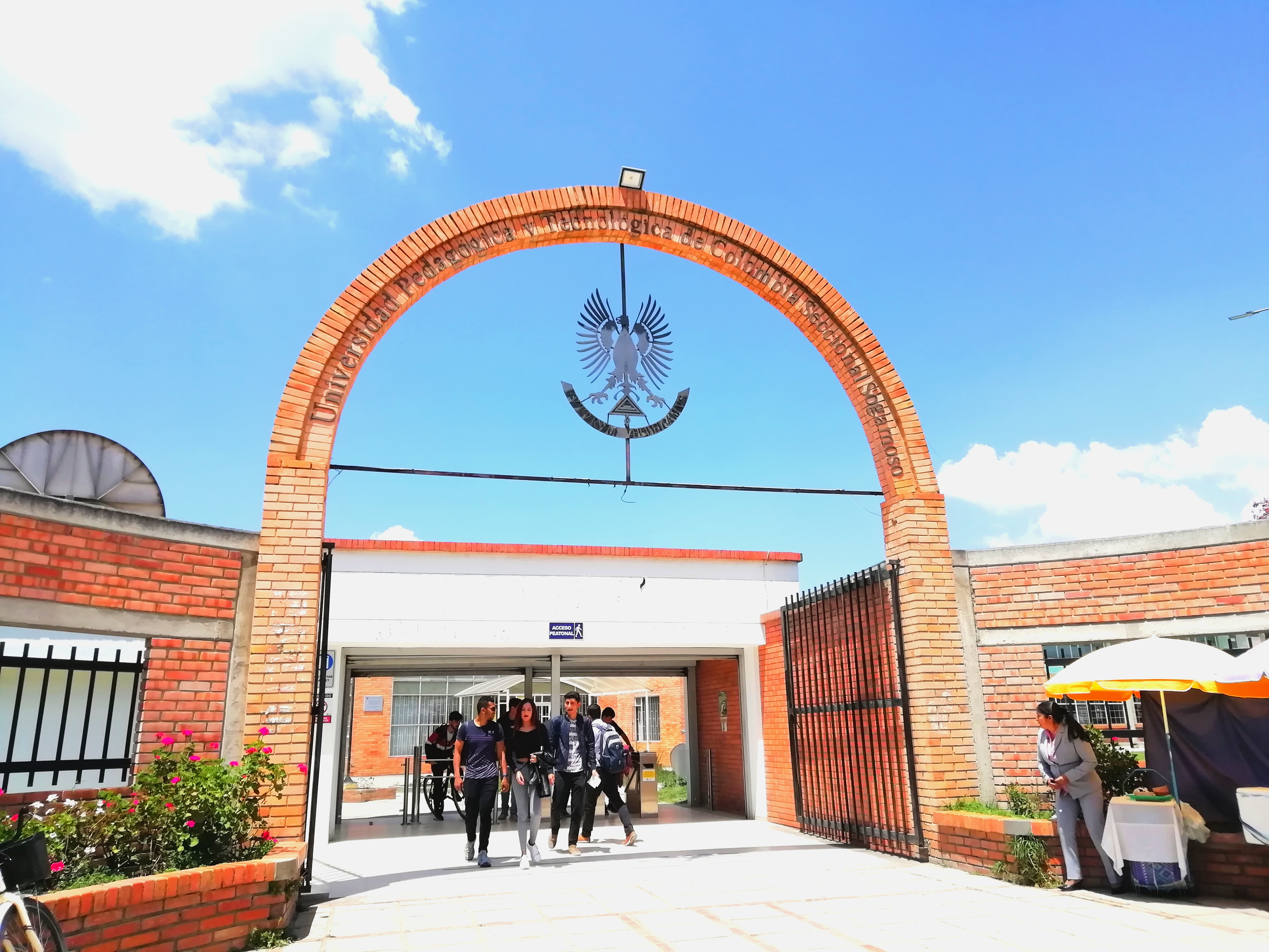 UPTC ENTRADA PEATONAL